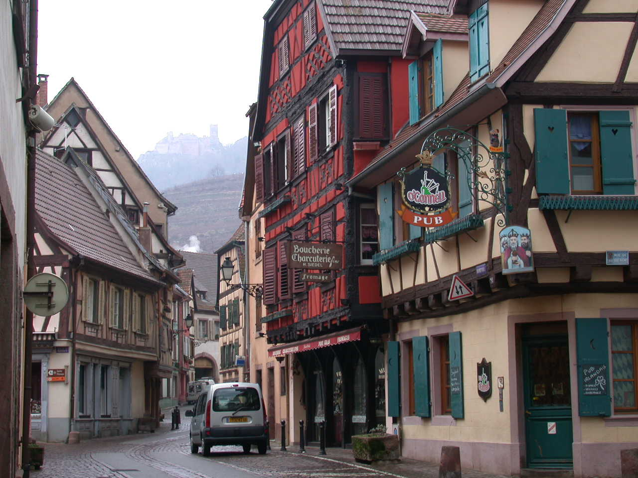 Ribeauvillé and its castle, Alsace Photograph: Mschlindwein, February 2nd, 2005